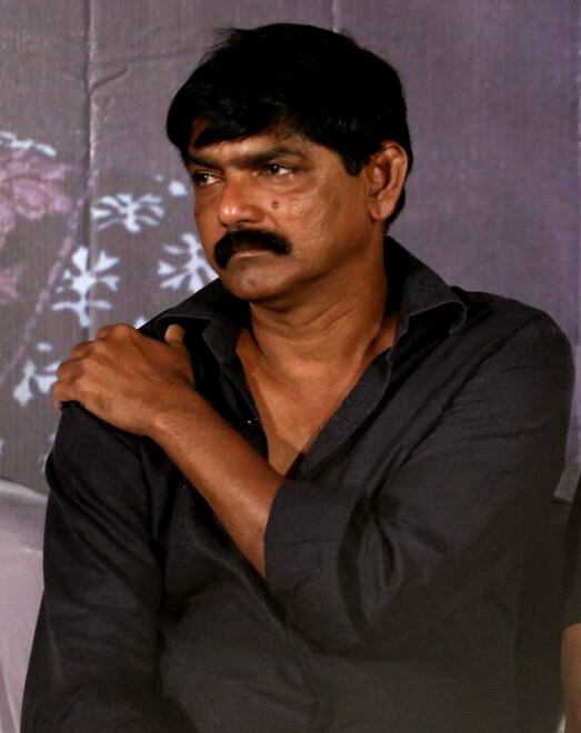 Director Agathiyan and Ameer at Mooch Movie Audio Launch Event